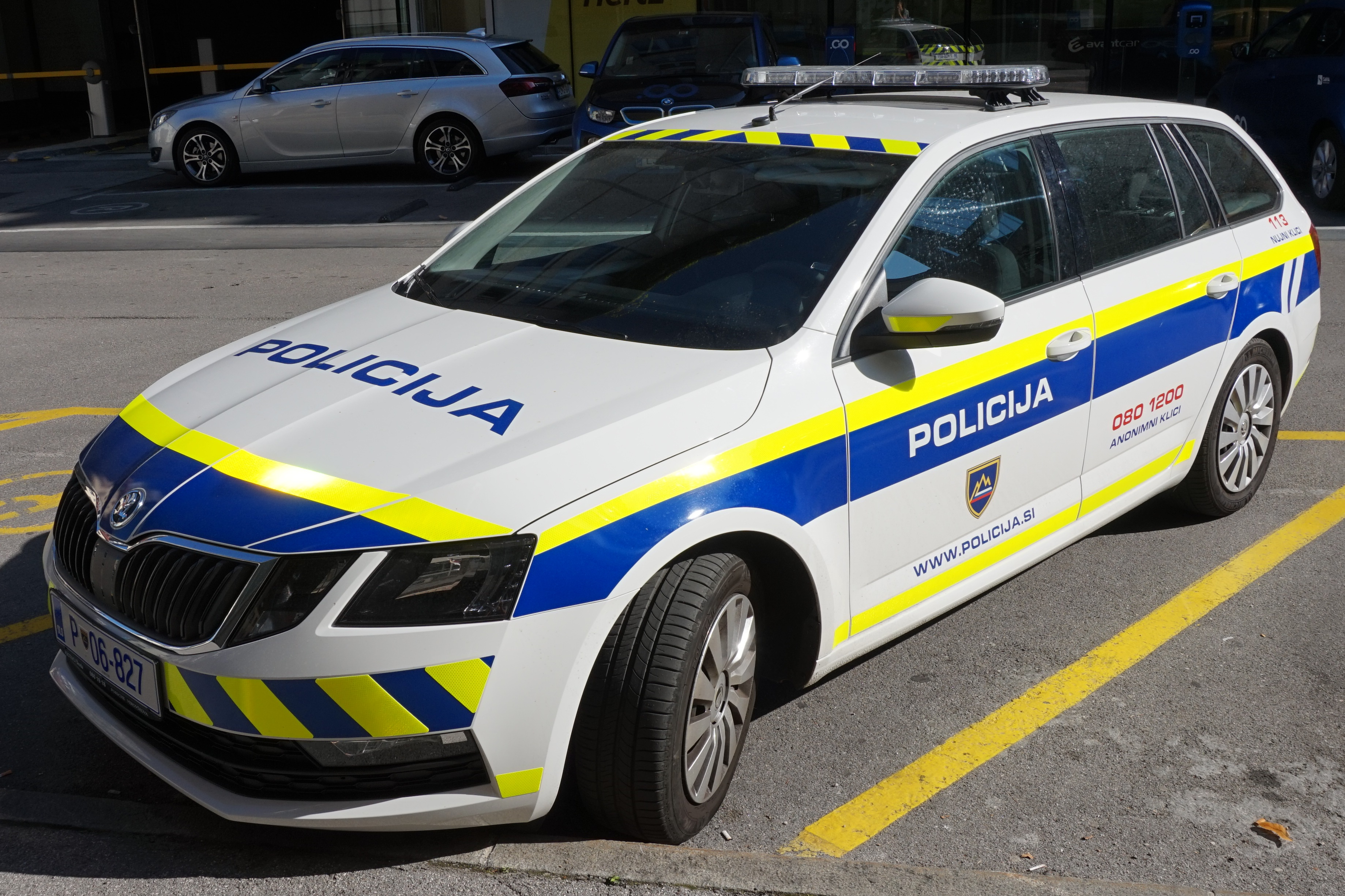 Slovene police car Škoda Octavia III (2017 facelift)